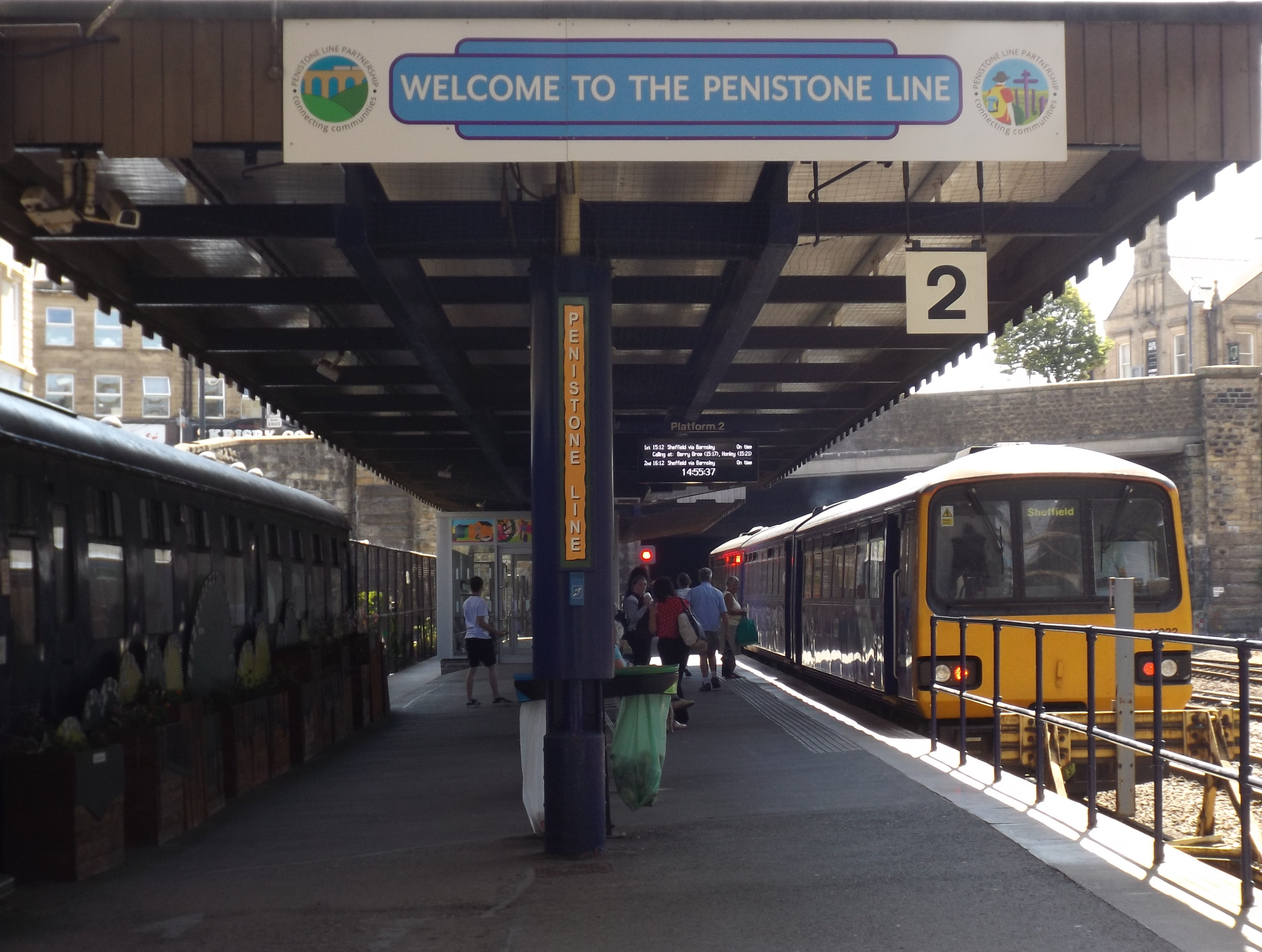 144022 at Huddersfield railway station in 2018